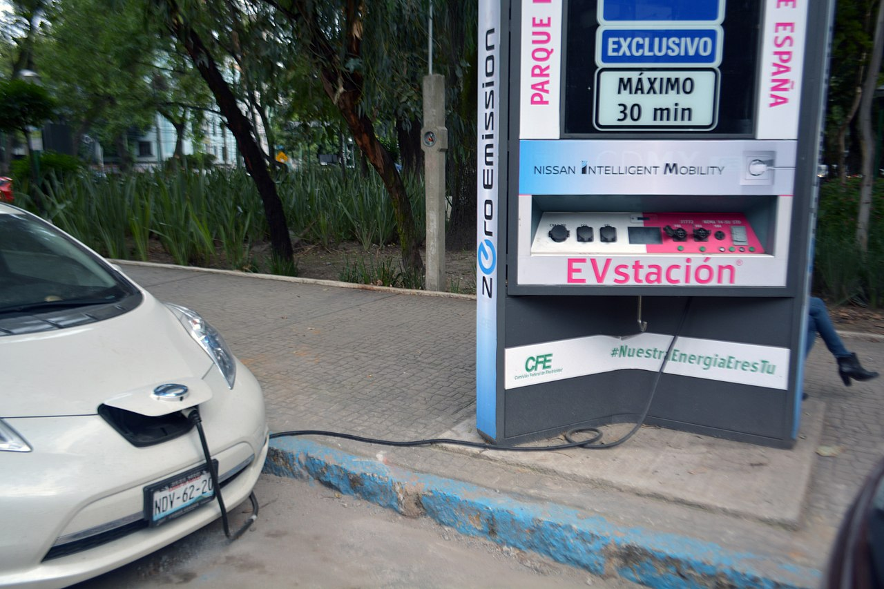 EVstation: Free charging station for PHEVs and electric devices (bicycles, motorcycles and mobiles). The service is provided by Imágenes y Muebles Urbanos (IMU), owners of the stations, and was approved by the Ministry of Urban Development and Housing and the Ministry of Mobility. 28 spots exist throughout Mexico City.